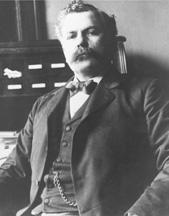 Jeter Connelly Pritchard, 1857-1921, half-length portrait, seated, facing left